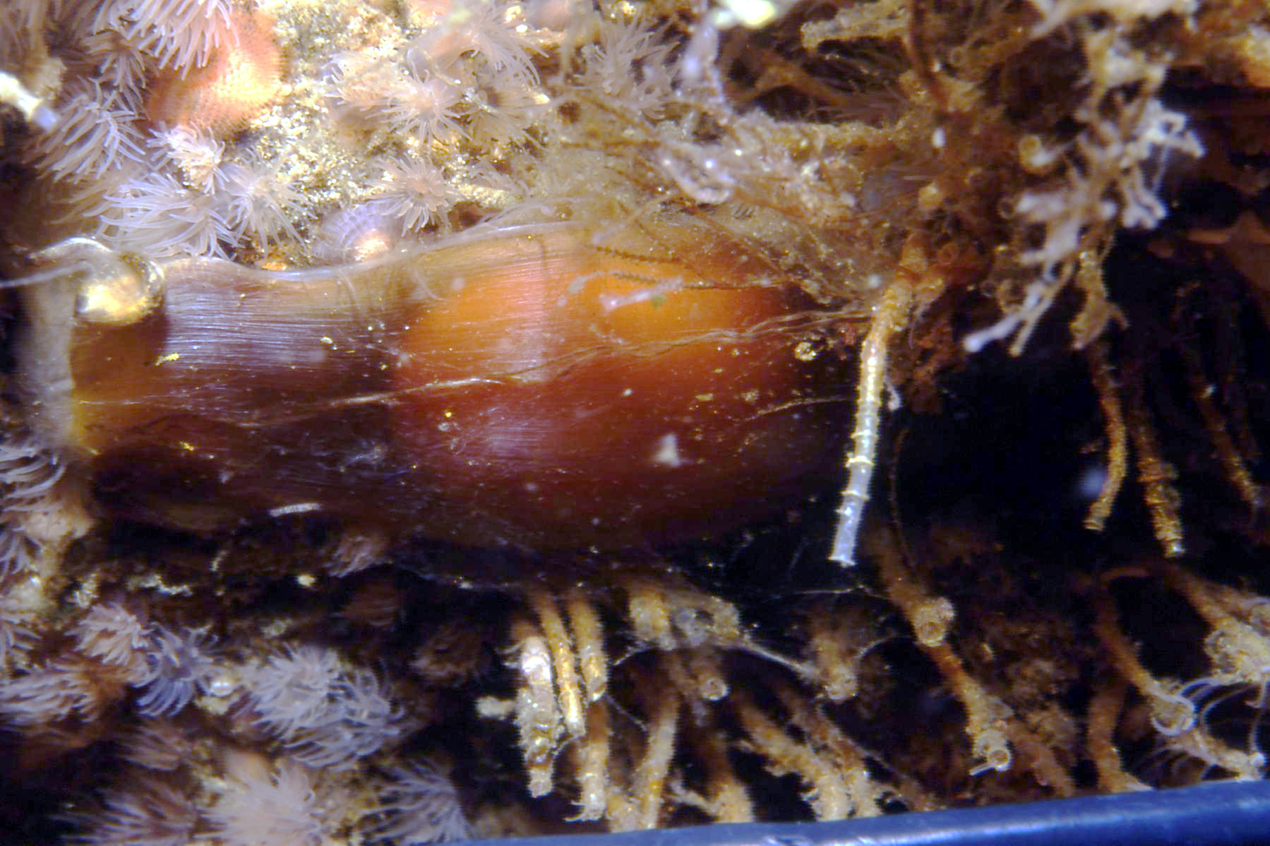 A photo of the egg case of the dark shyshark, Haploblepharus pictus taken off the Cape Peninsula of South Africa in about 20m of water using a Nikonos V camera